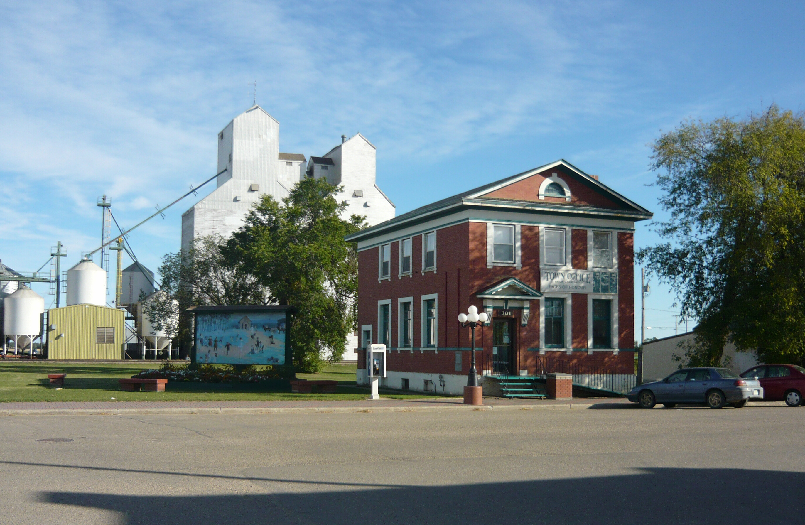 Town Office of Duck Lake, Saskatchewan, Canada. Located at intersection of Front Street and Victoria Avenue.